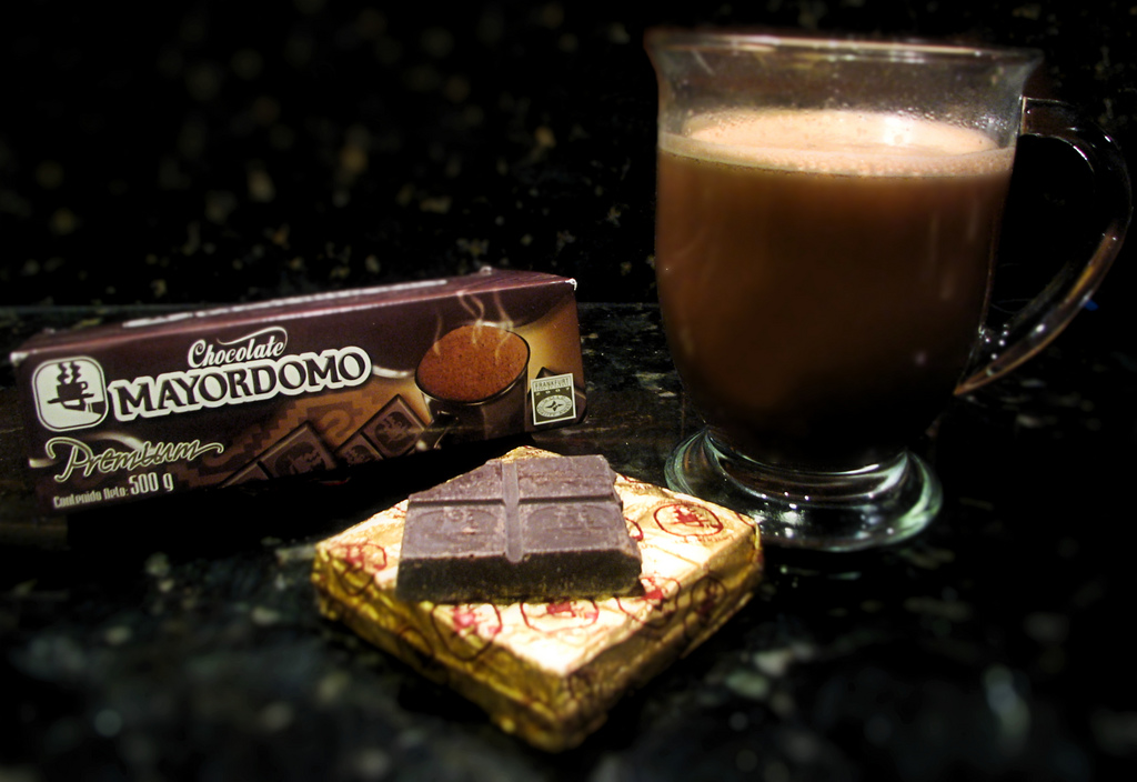 Photo of prepared mexican hot chocolate with "raw" ingredients, to help display differences between Mexican hot chocolate and those traditionally sold in the English-speaking world. Display was designed and set-up by myself.